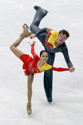 Vera Bazarova and Yuri Larionov at the 2010 Winter Olympics.